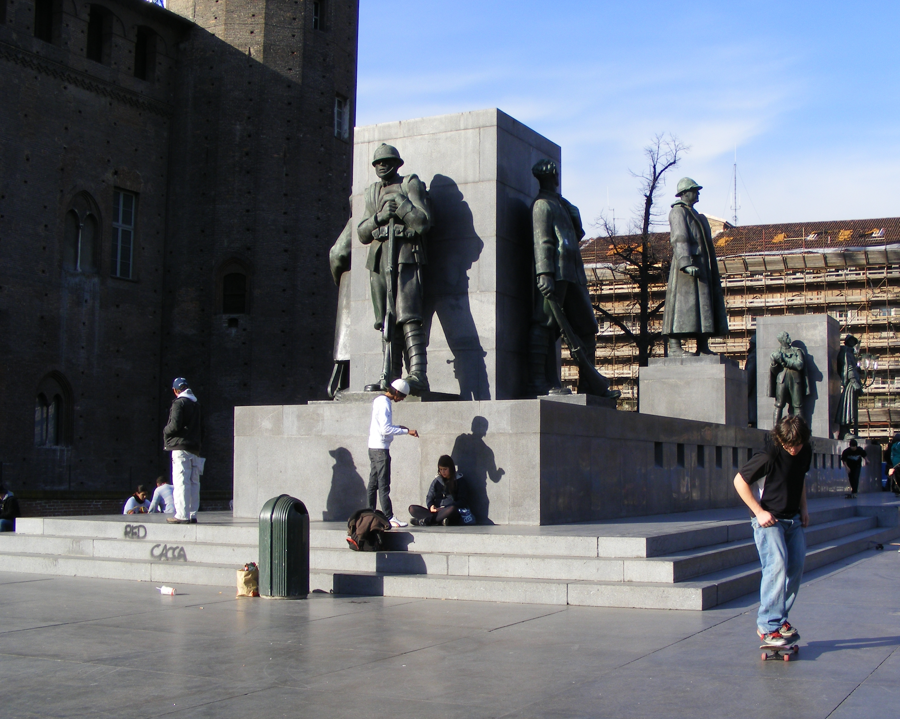 Monument of Emanuele Filiberto Duca d`Aosta located in Torino, Piazza Castello(sculptors: Eugenio Baroni and Publio Morbiducci, 1936-1937)